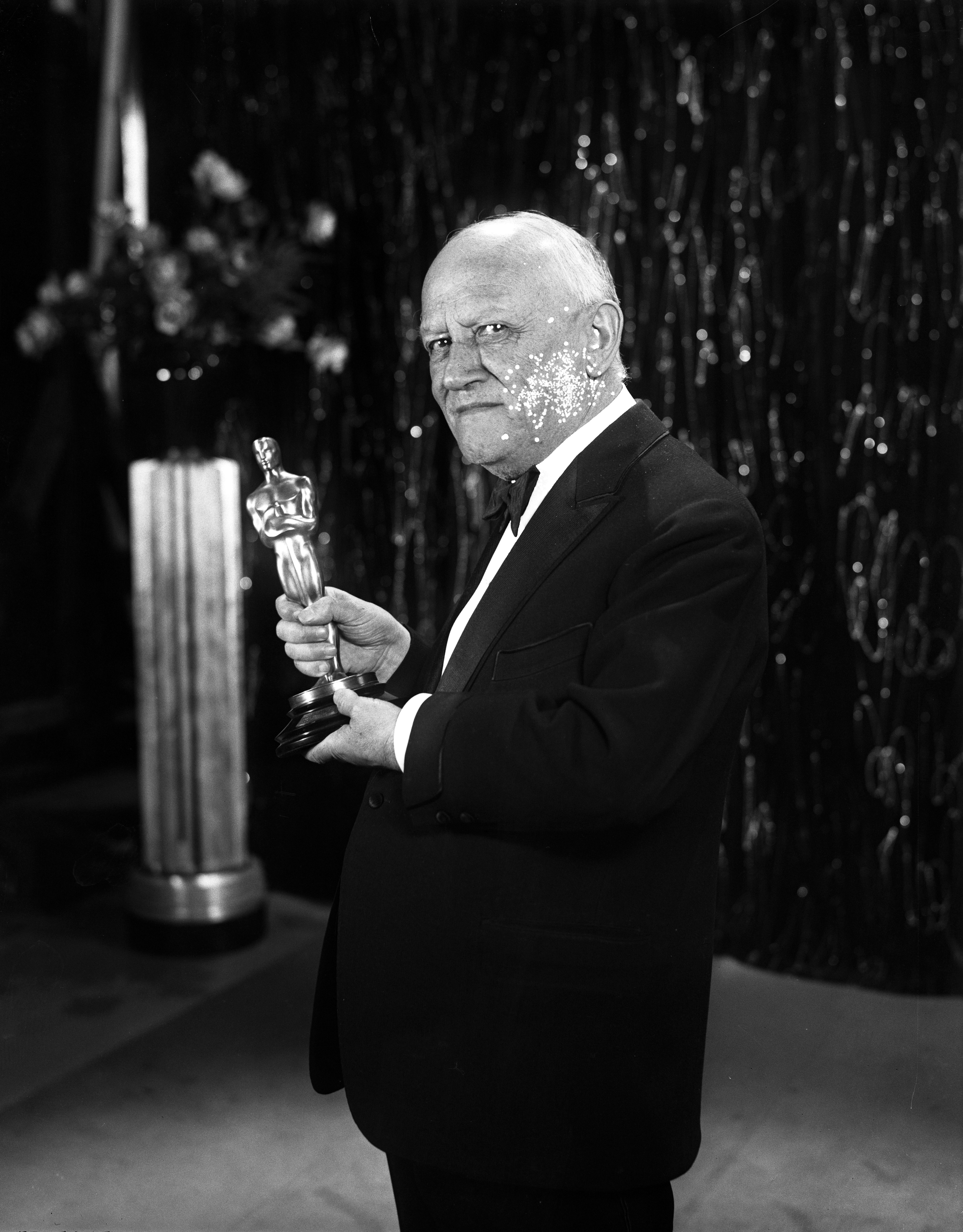 Carl Laemmle holding the Oscar trophy in 1930, probably for All Quiet on the Western Front, produced by his son Carl Laemmle Jr. on Universal Pictures.